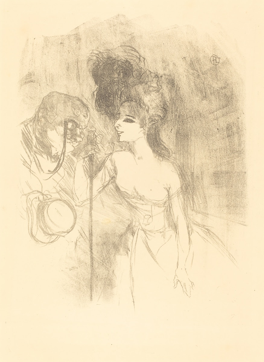 Anna Held et Baldy (1896) - H.T. Lautrec "Baldy" is the artist's friend, Maxime Dethomas. Lautrec gifted an annotated proof to Dethomas.